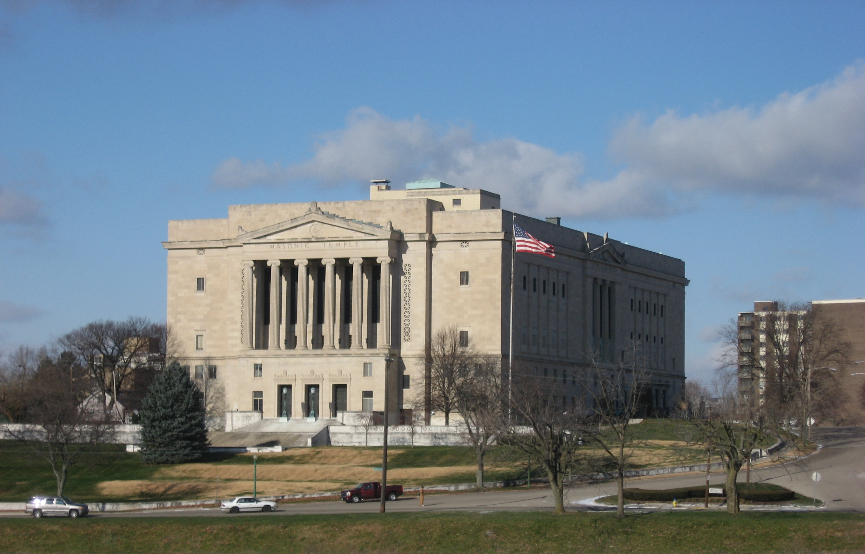 Front of the Dayton Masonic Center, located at 525 Riverview Avenue in Dayton, Ohio, United States. The center is part of the Steele's Hill-Grafton Hill Historic District, a historic district that is listed on the National Register of Historic Places. Photograph taken from the southbound lanes of Interstate 75.